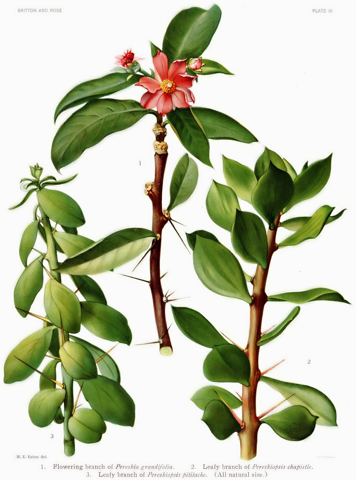 Pereskiopis pititache, Pereskia grandiflora, Pereskiopis chapistle